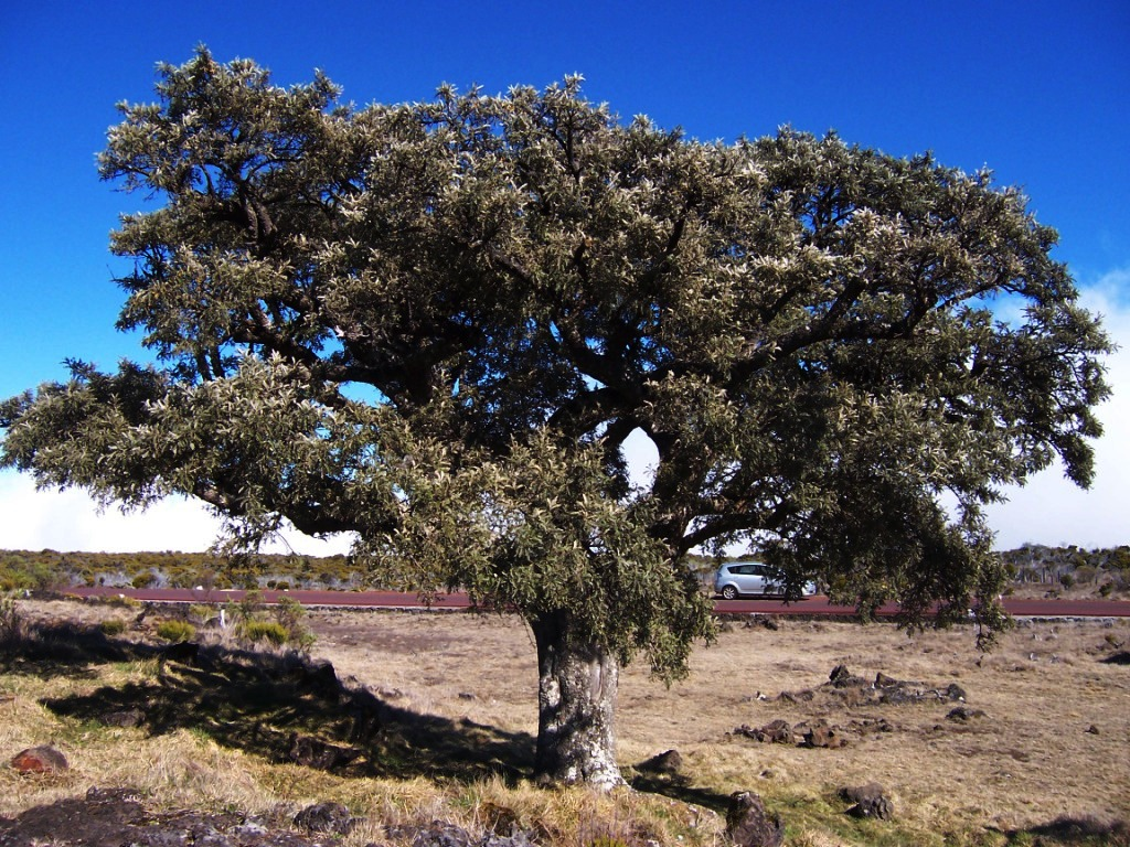 Little Réunion mountain tamarin (Sophora denudata) - Tree near the Volcano Road (Réunion, France).